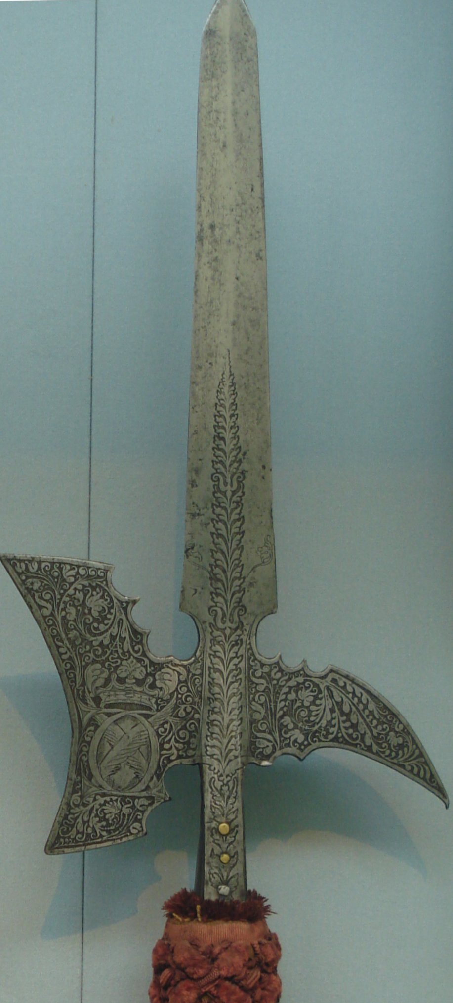 Halberd of the bodyguards of Karl I, prince of Liechtenstein (reigned 1569-1627). Steel, wood, fabrics. German, c. 1620-23. In the collection of the Metropolitan Museum of Art.